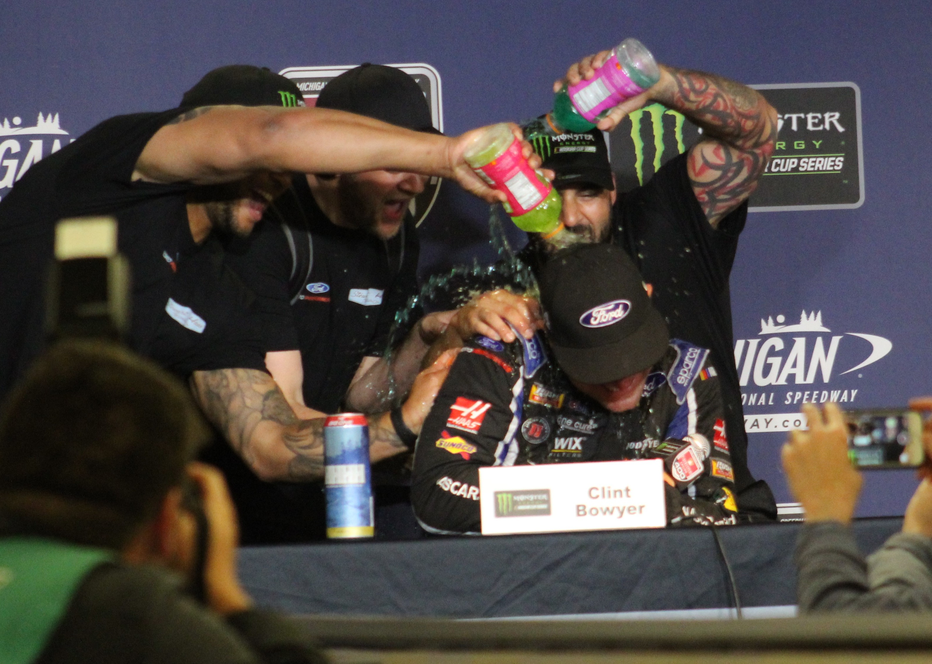 Clint Bowyer is given a Gatorade shower by crew members during a press conference after being declared the winner of the FireKeepers Casino 400 at Michigan International Speedway in 2018. The race was shortened to 133 laps due to rain.